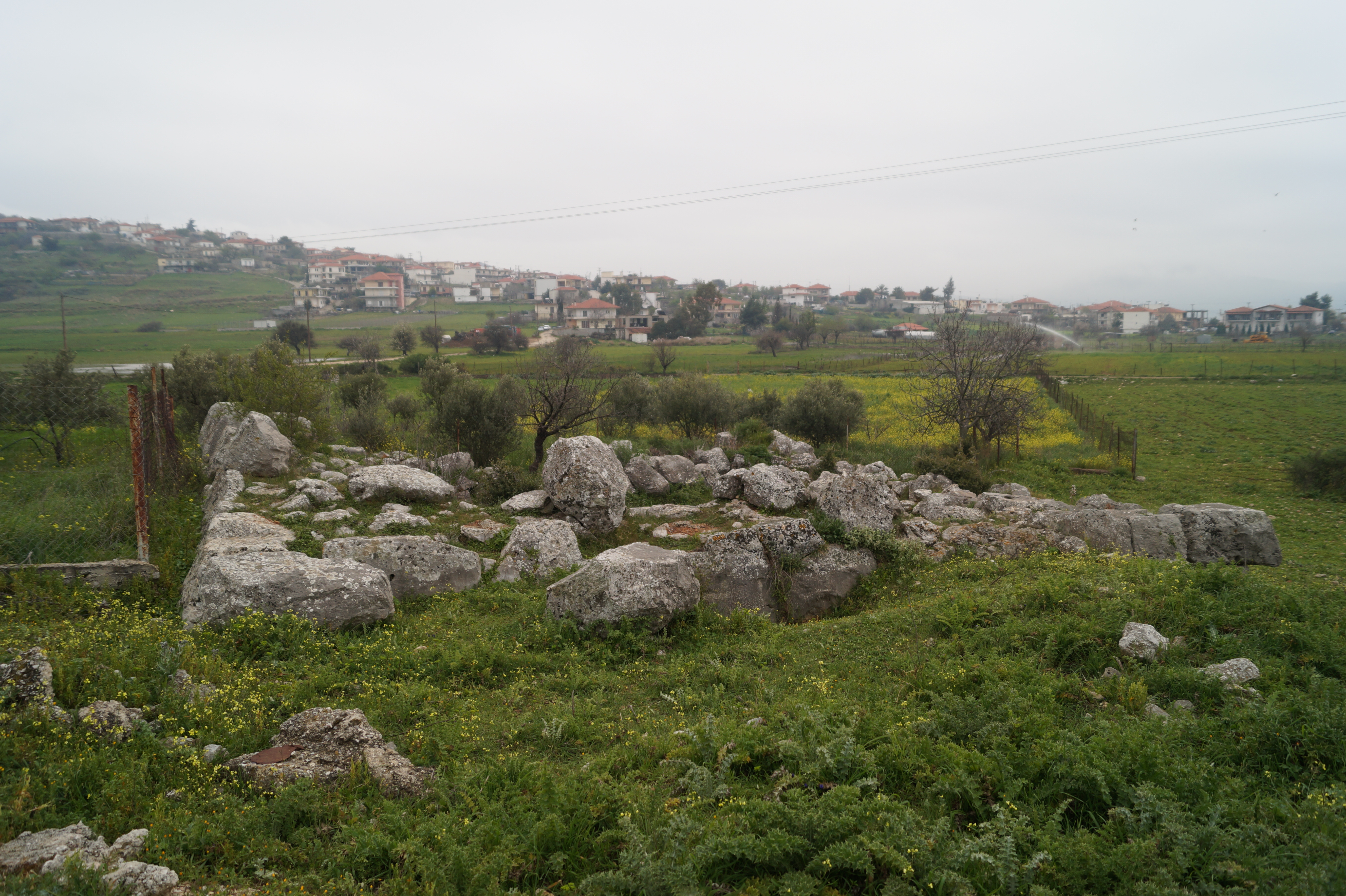 Lygourio, Argolis, Greece: Pyramid of Lygourio, view from north. In the background there is the city of Lygourio.